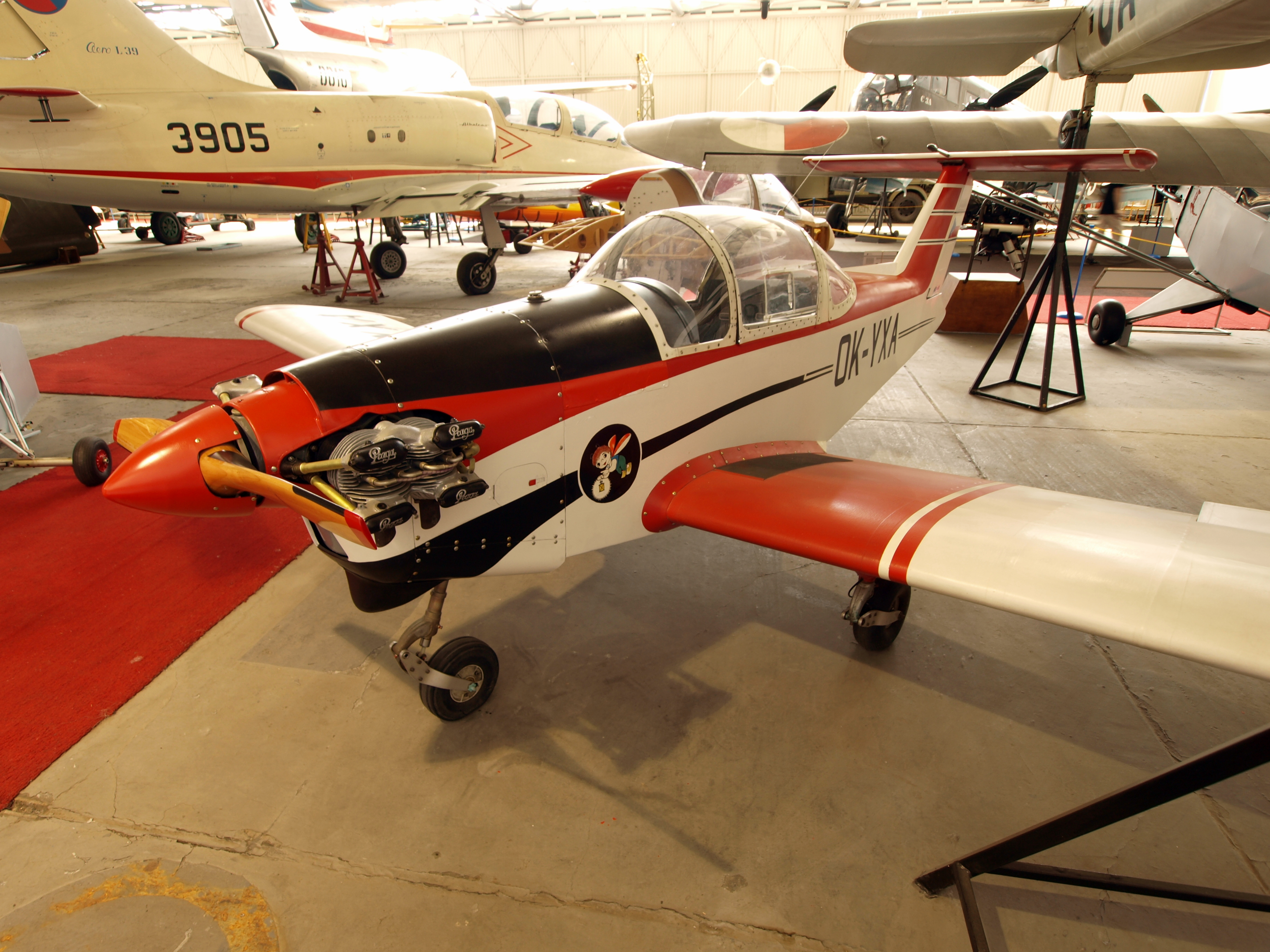 Verner W-01 Broucek (OK-YXA). Photographed whitout tripod (this was not allowed!).